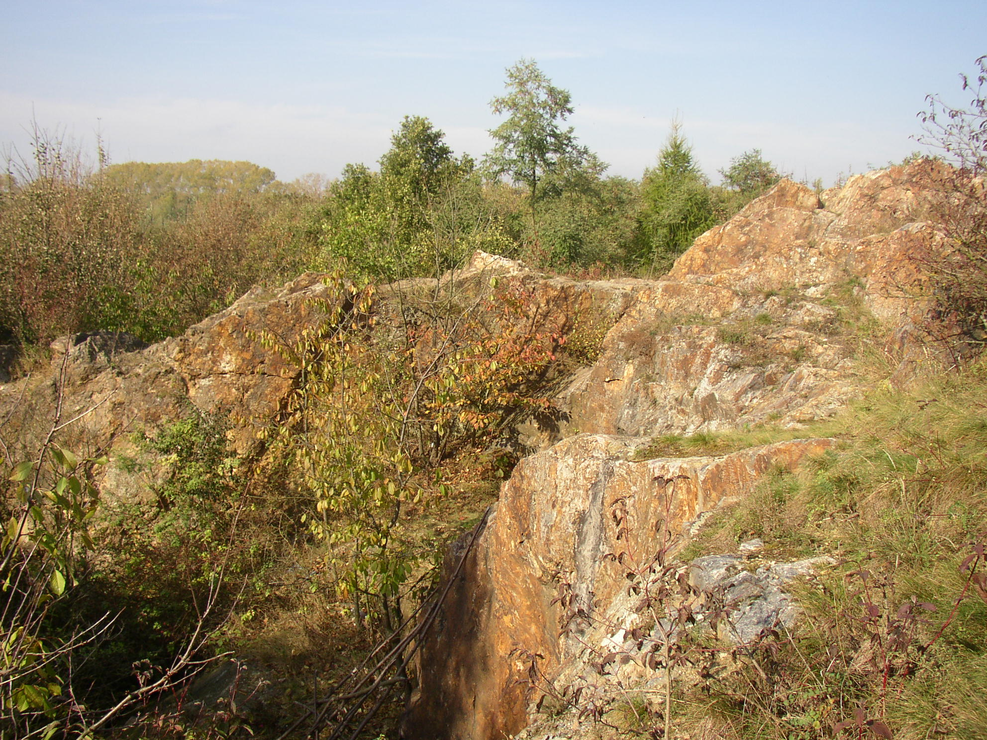 Žákova skála (a geological and paleontological site) near Běloky, Kladno District, Czech Republic.